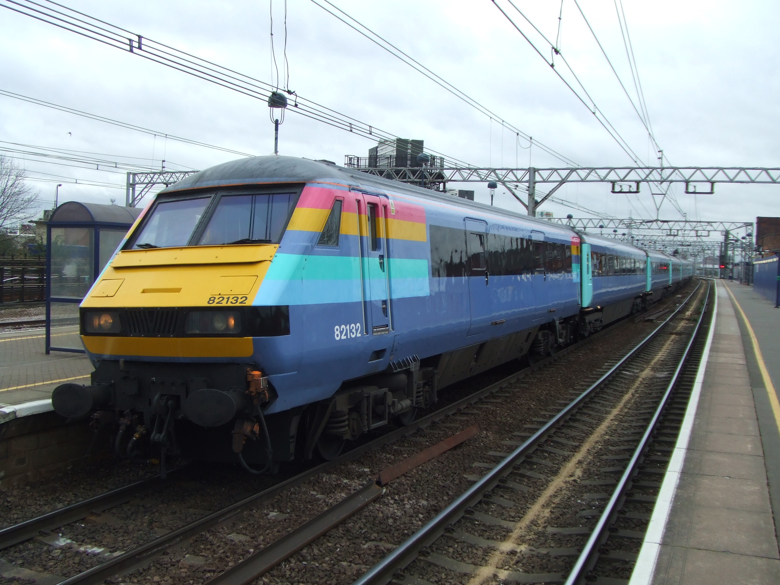 BR Mk.III DVT No.82 132 of National Express East Anglia in debranded "One" livery but retaining stripes departing Stratford on a Norwich - Liverpool St. express, 2/08.